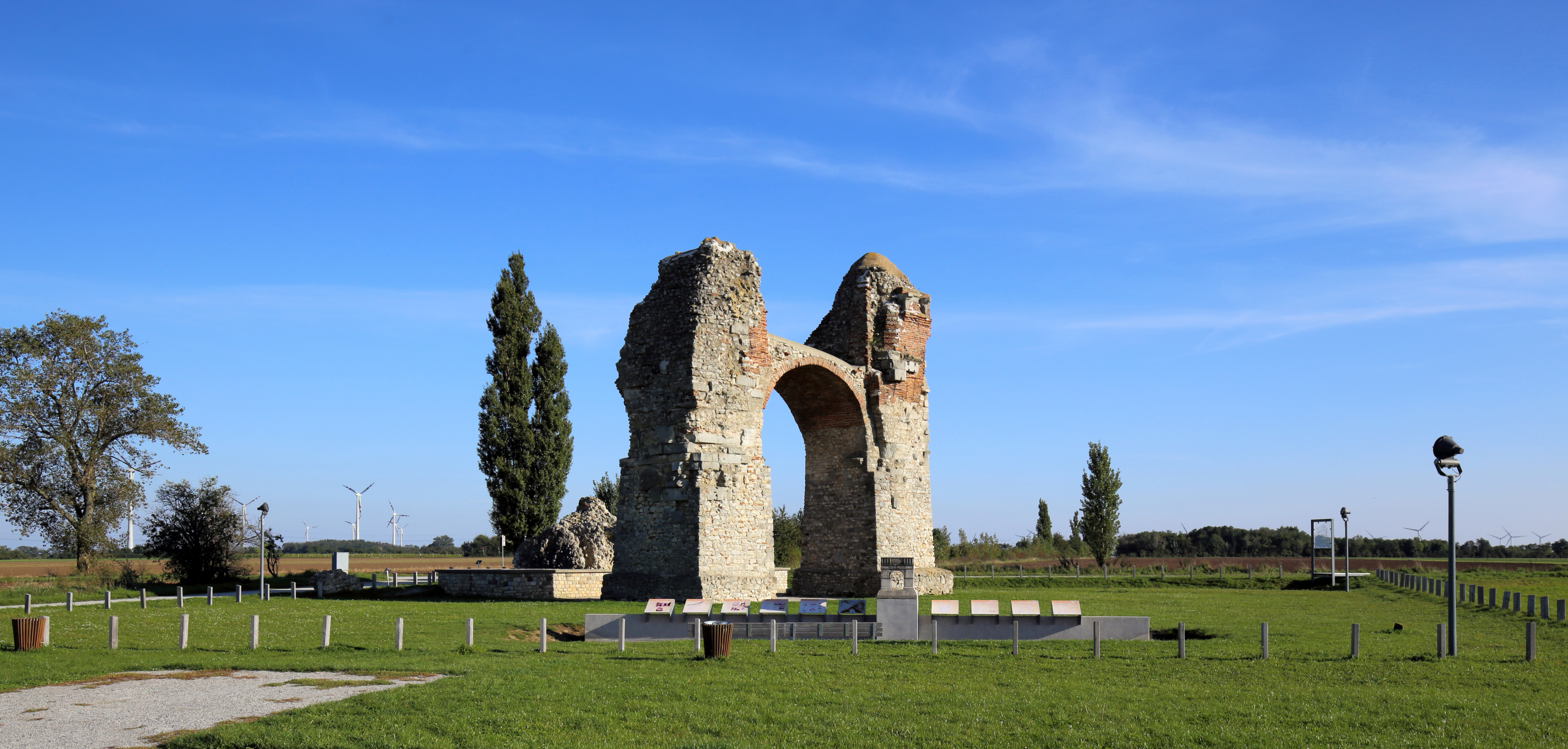 The ruin of the Heidentor (Pagan gate) in Carnuntum.